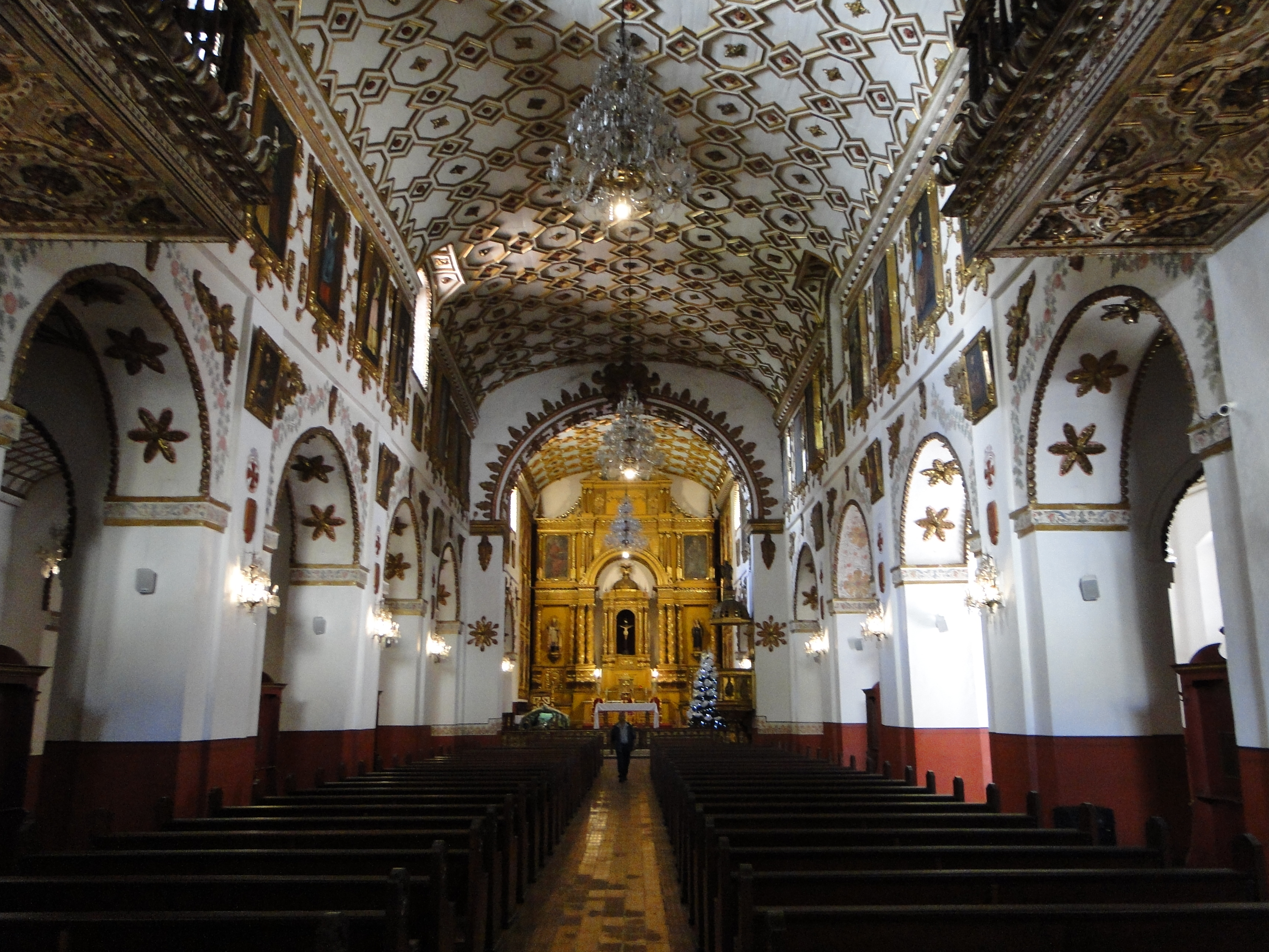 Inner view of San Augustin church in Bogota (Columbia)